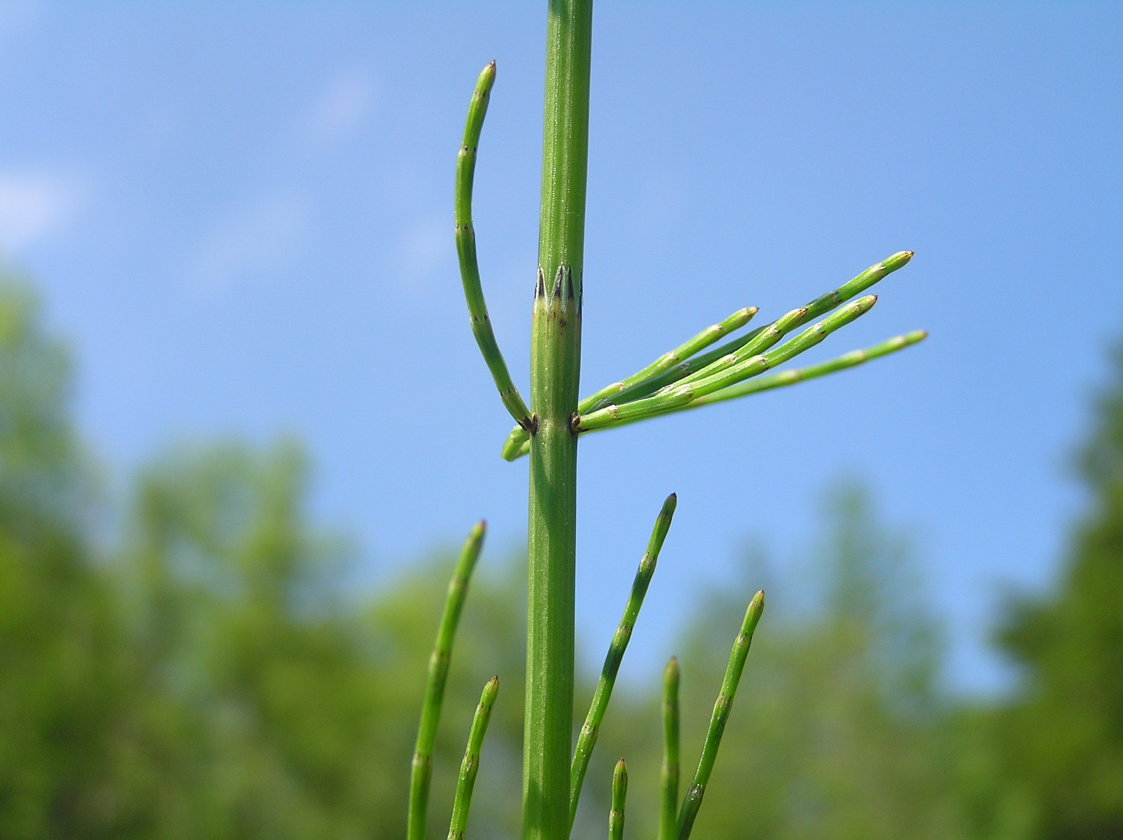 Equisetum palustre, Rusava, Moravia, Czech Republic